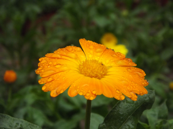 We are also called pot marigold, ruddles, common marigold, garden marigold, English marigold, or Scottish marigold. Oh, I feel puzzled about my different names. This may also make I forget my hometown, southern Europe or garden?